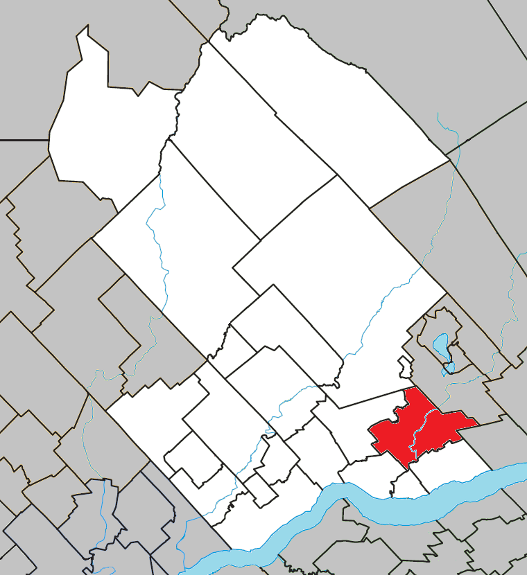 Location of Pont-Rouge, Quebec within Portneuf Regional County Municipality.